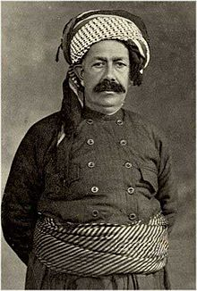 Sheikh Mahmoud - Kurdistan's King (1918-1922)